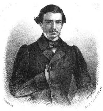 Portrait of Ramos Coelho